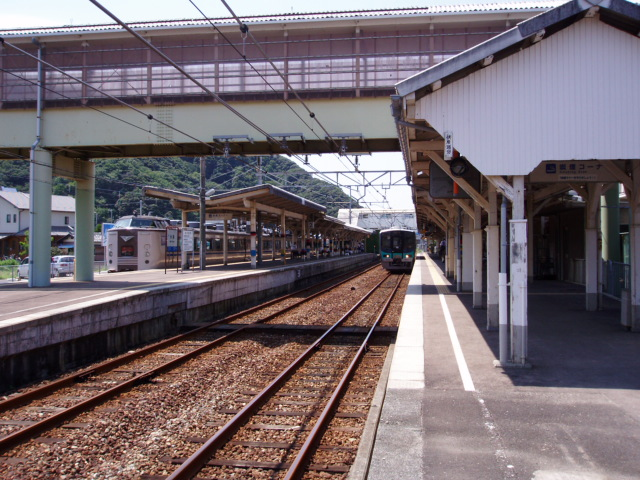 West Japan Railway Obama Line Obama Station Platform 西日本旅客鉄道小浜線小浜駅駅ホーム